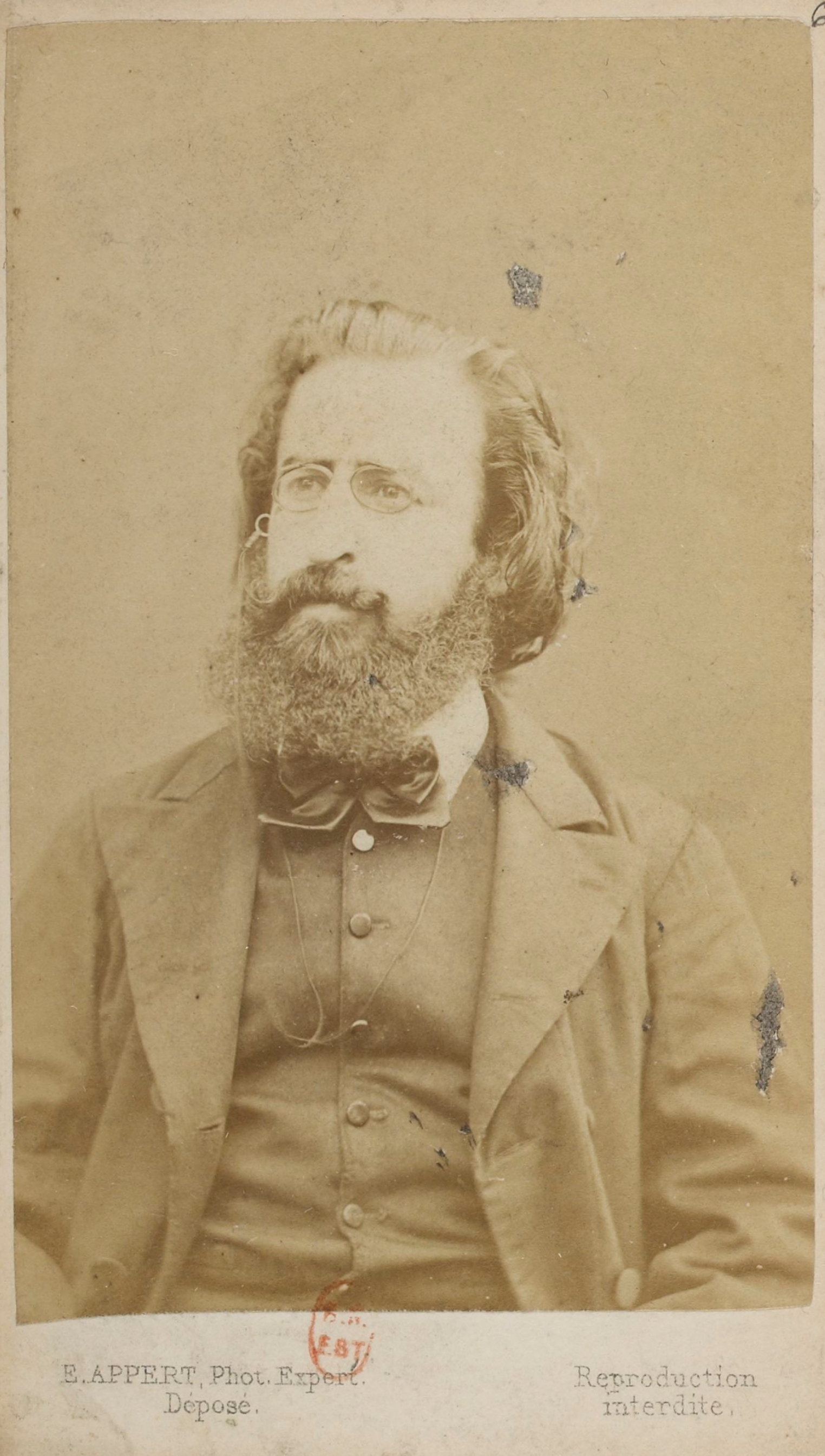 Théophile Ferré (1846 - 1871), member of the Paris Commune. Executed by shooting.